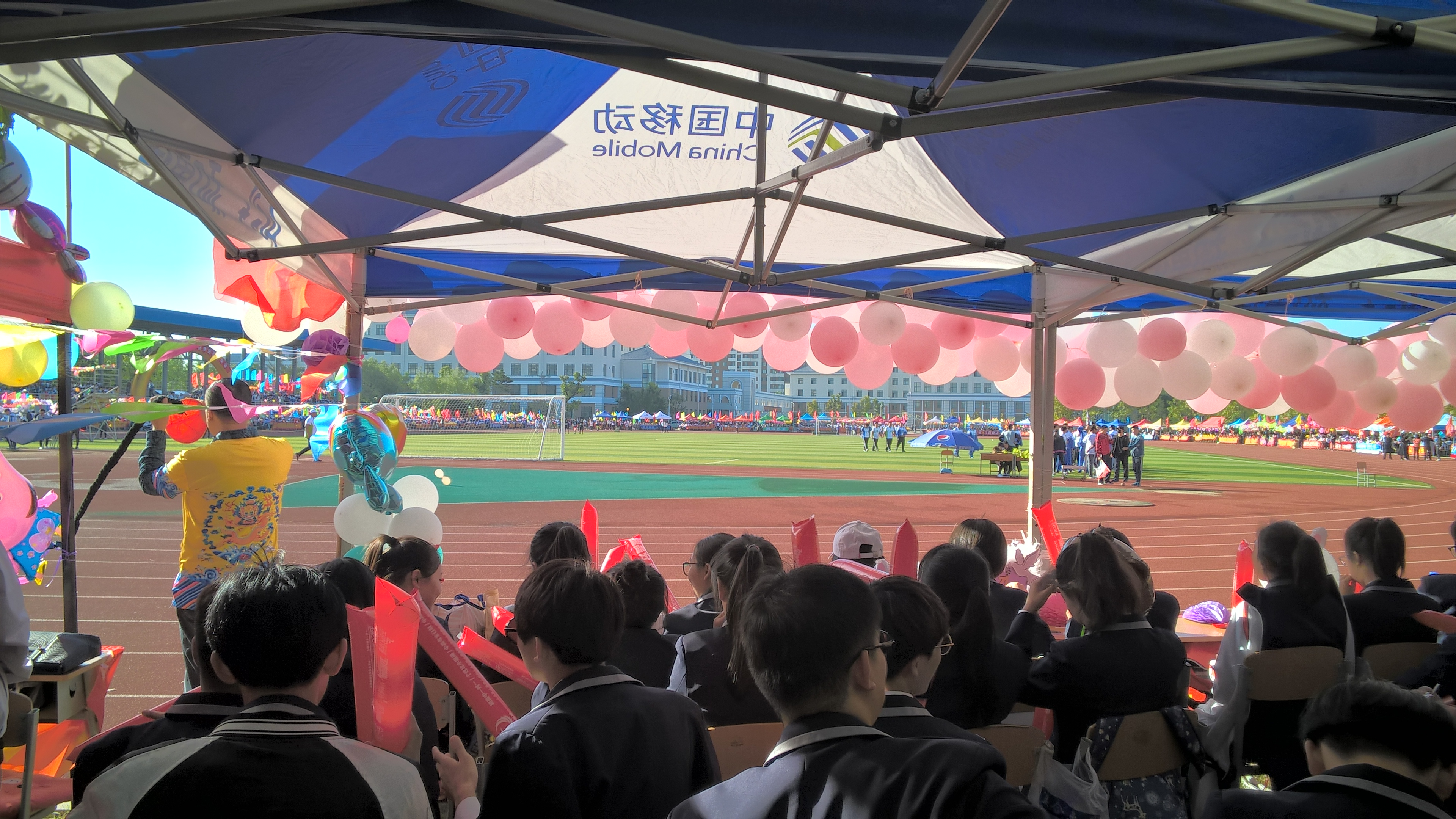 The sports meeting taken place in Tieling High School